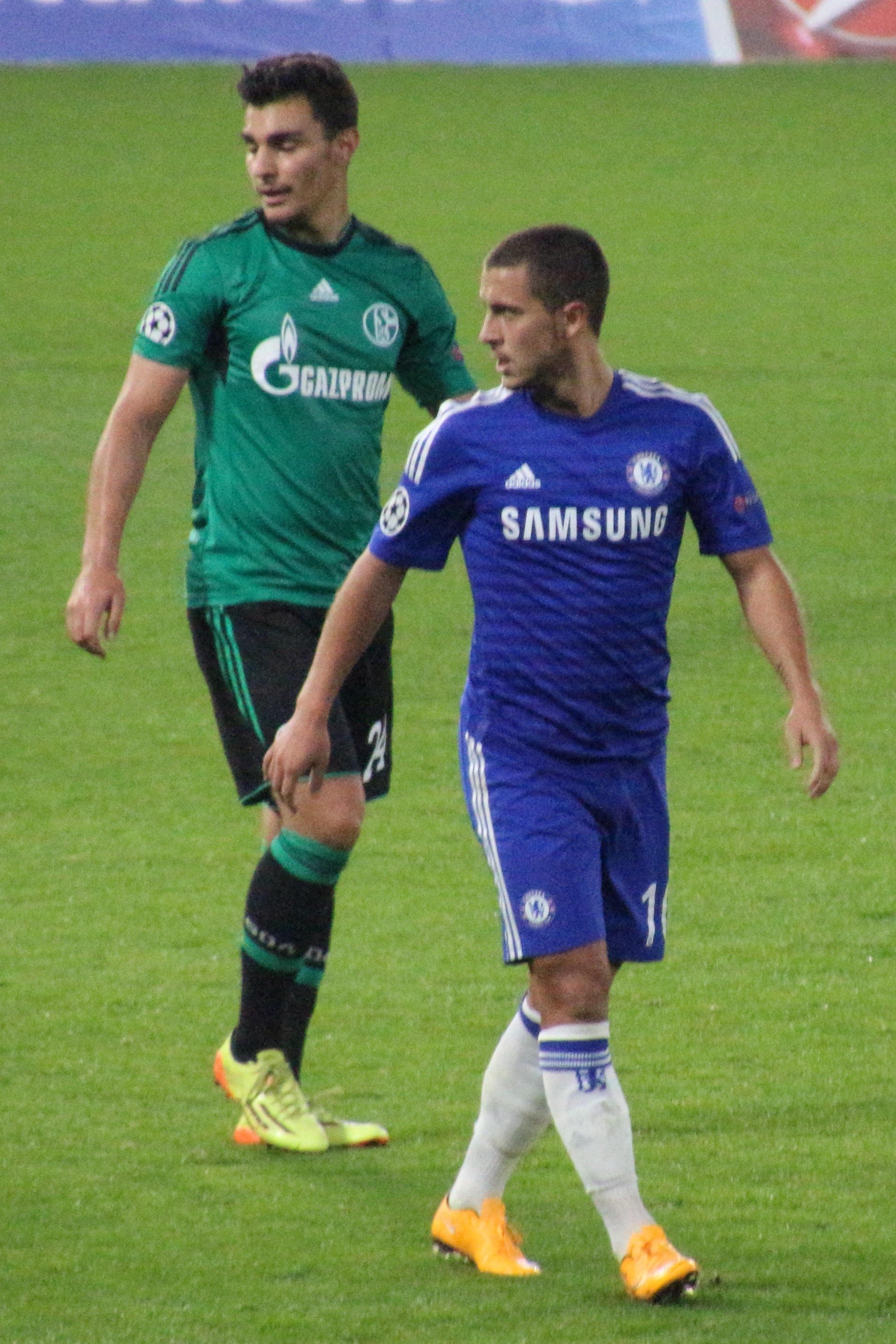 Champions League match between Chelsea and FC Schalke 04 at Stamford Bridge on 17 September 2014.